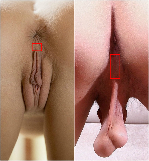 Comparison of the female and male perineum.